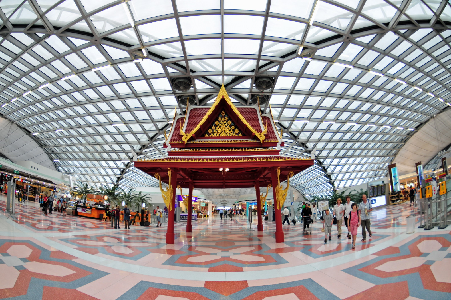 Sala (Thai pavilion) at Suvarnabhumi Airport, Bangkok, Thailand - between the C and the D gates